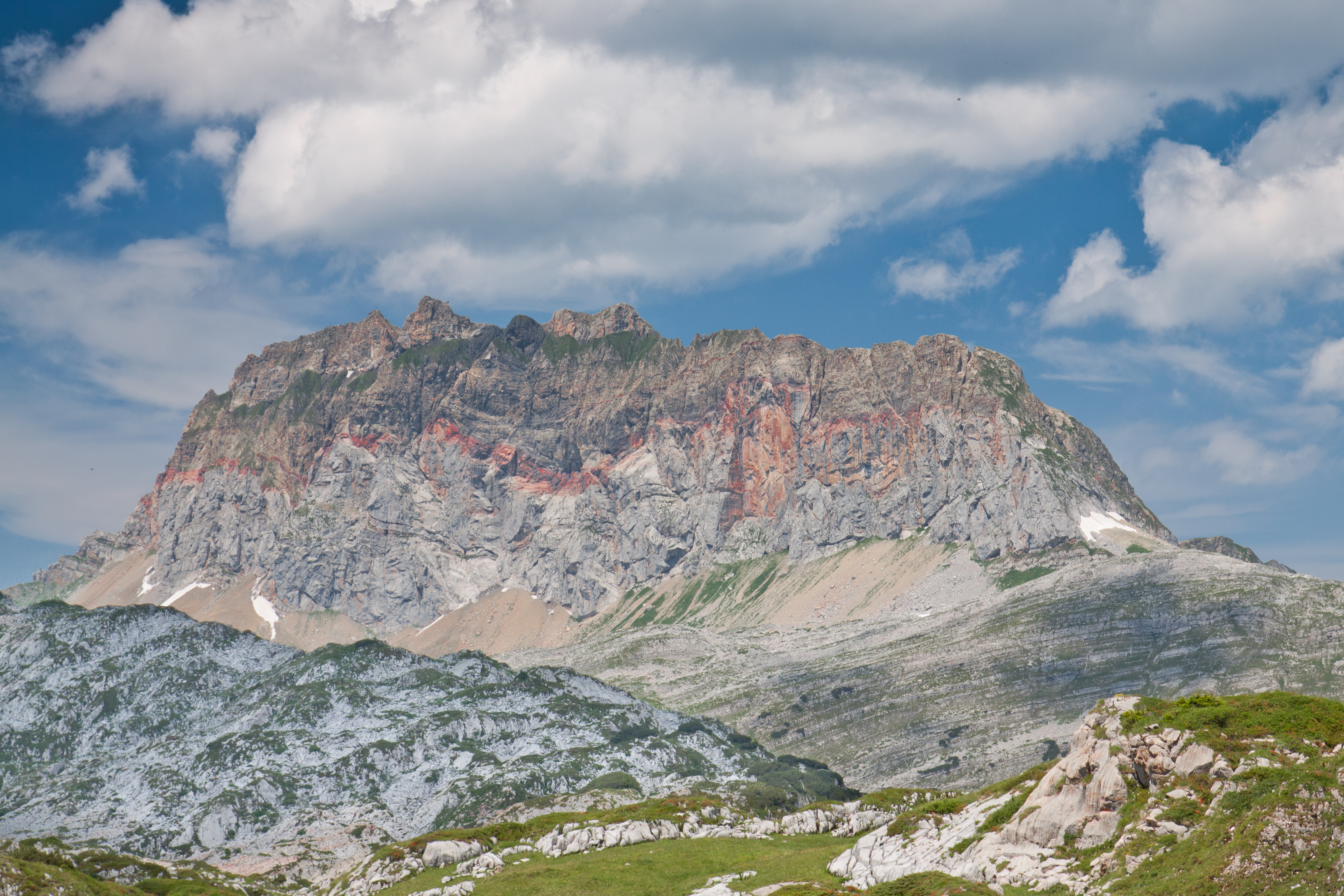 Rote Wand in Vorarlberg / Austria, picture taken from "Steinernes Meer"